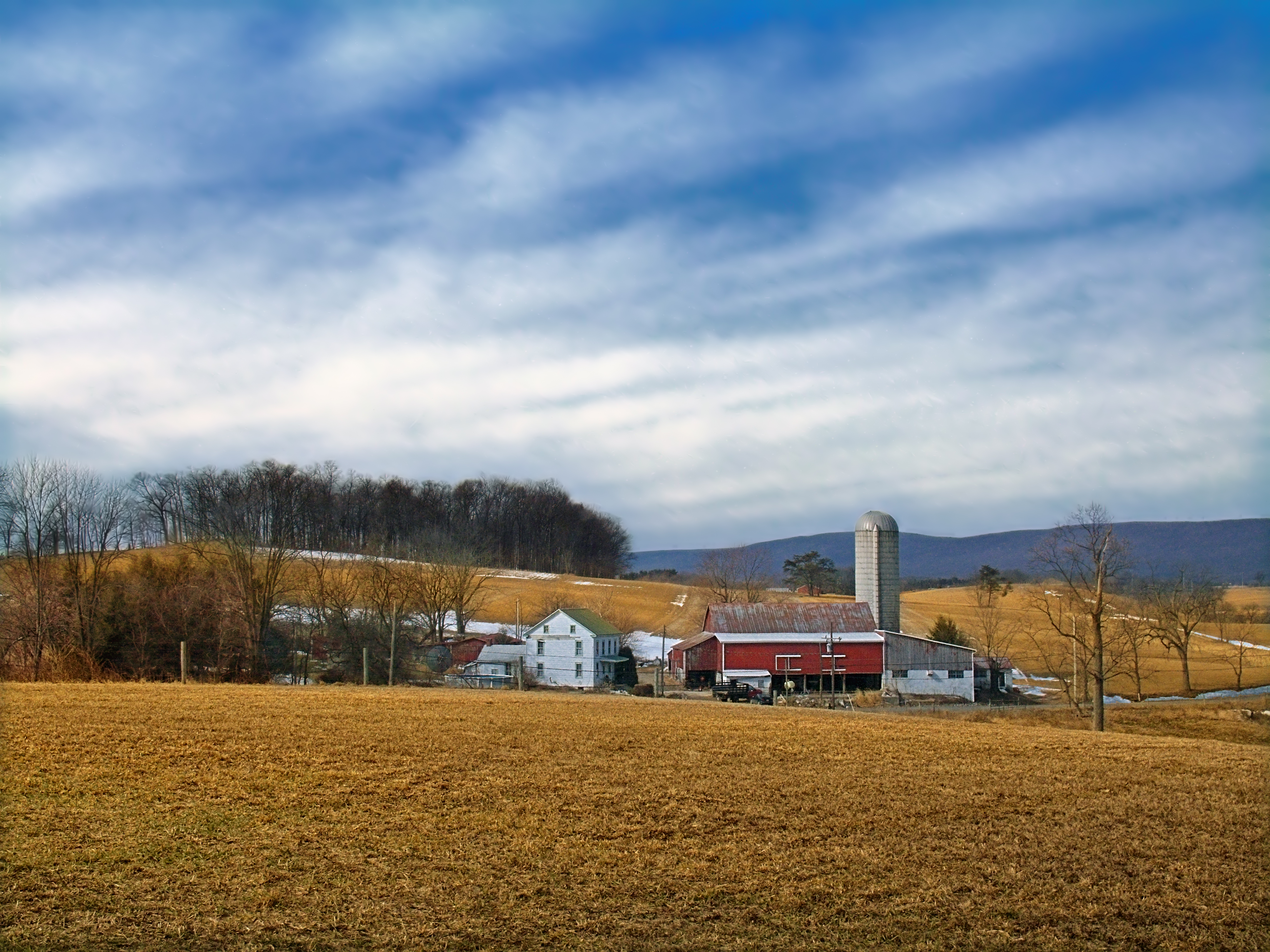 Hartsprings Farms, Windsor Castle Rd., Perry Township, Hamburg, Berks County.